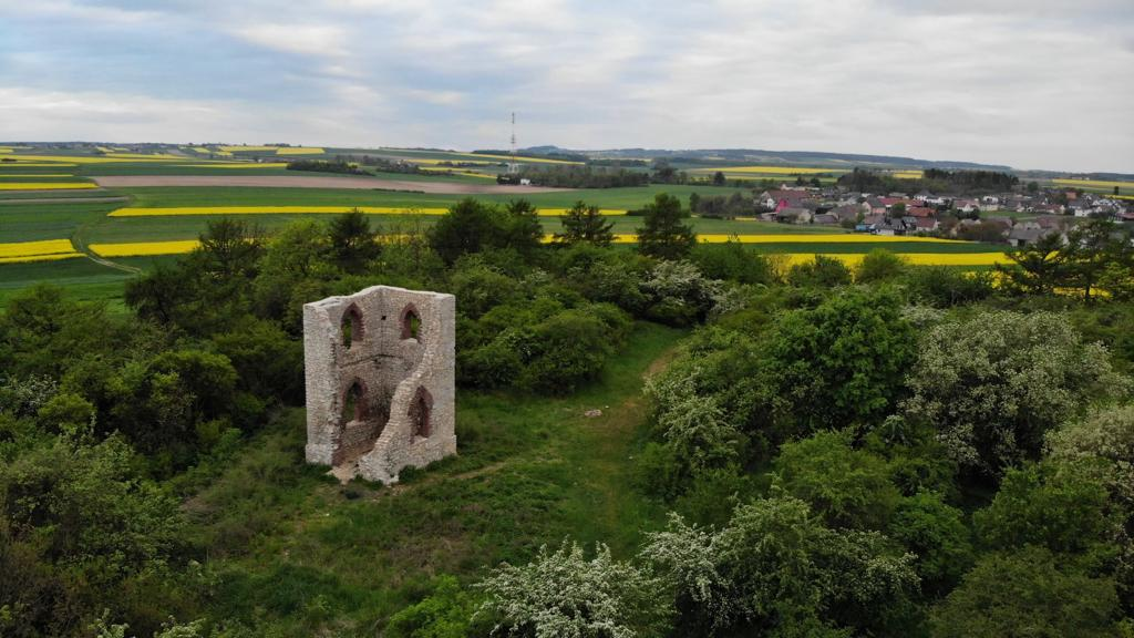 Ruins of Saint Florian's chapel in Rożniątów